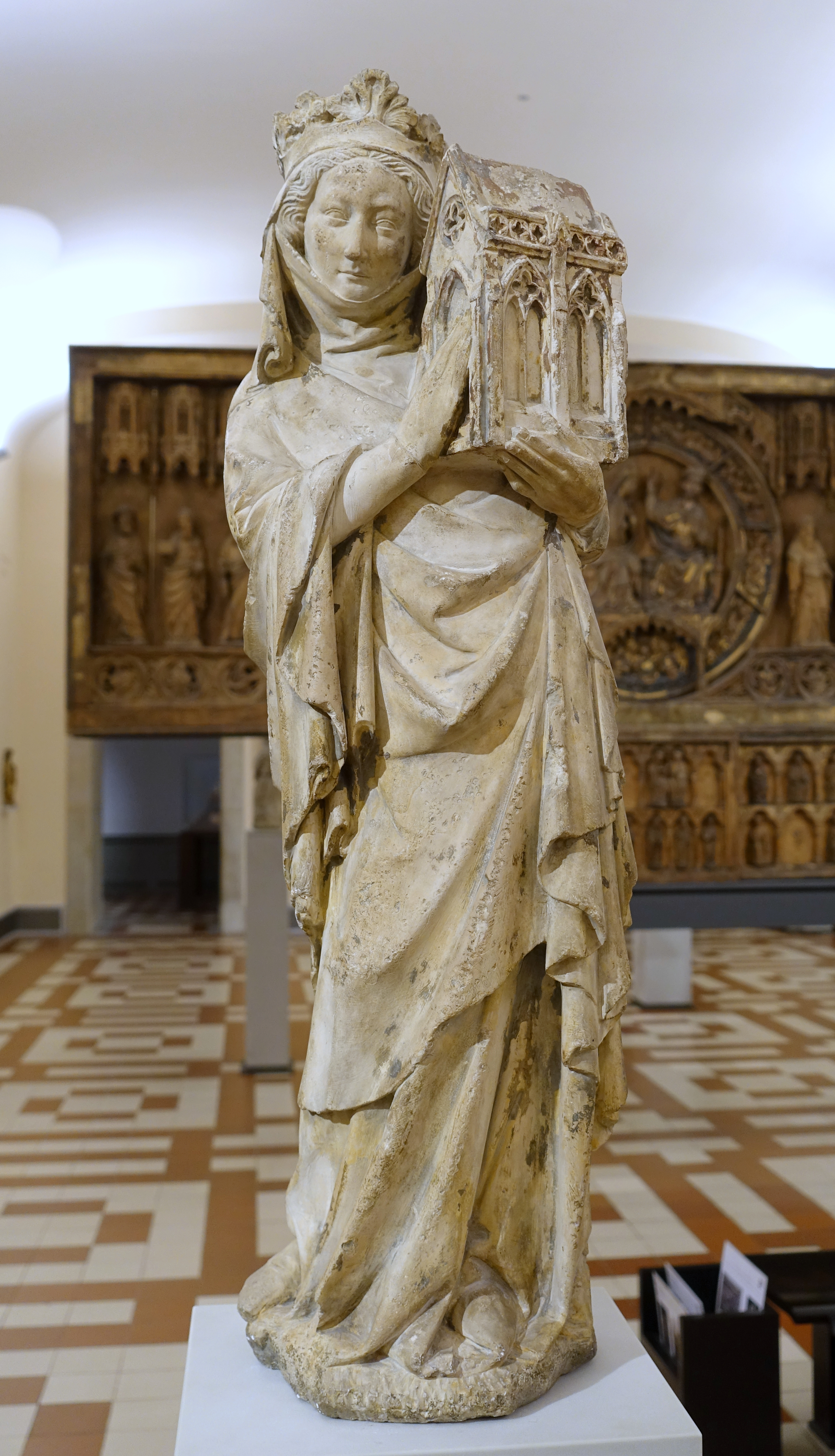 Exhibit in the Bode-Museum, Berlin, Germany. This work is in the public domain because the artist died more than 100 years ago.